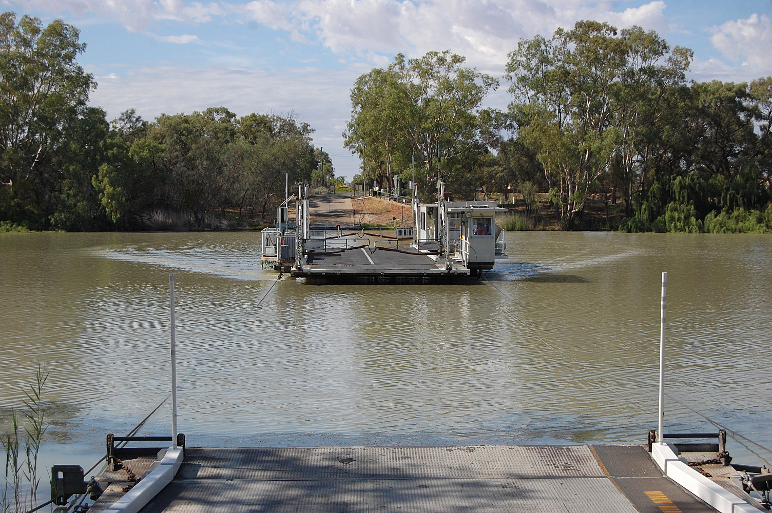 Cable ferry over the Murray River at Lyrup, South Australia